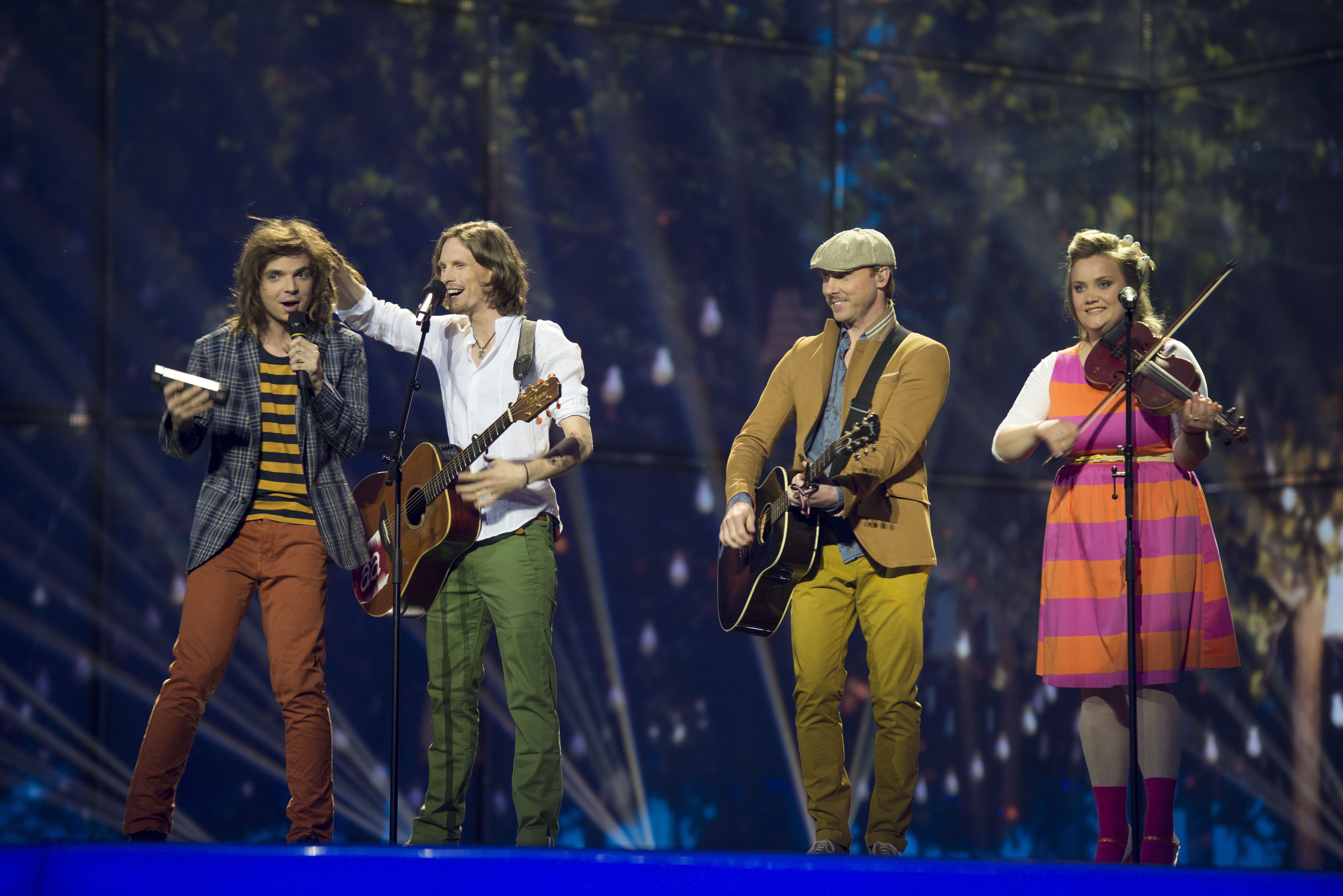 Aarzemnieki representing Latvia with the song "Cake to Bake" during the first dress rehearsal of the first semi final of the Eurovision Song Contest 2014 Copenhagen. (Help translate this text)